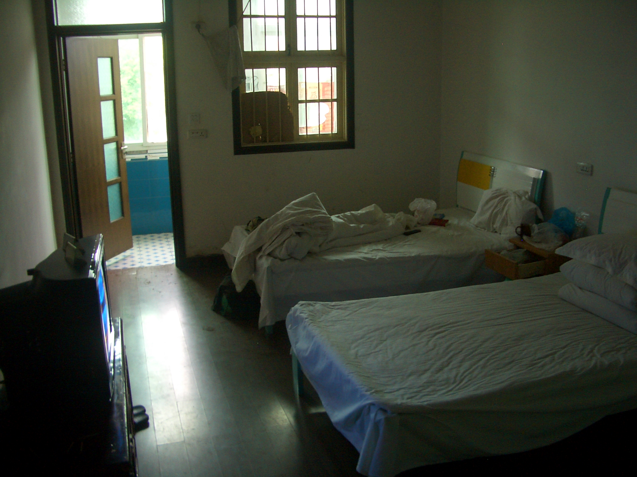 In Changsheng Hotel (昌盛宾馆, Changshen Binguan) in the town of Futu, in Yangxin County, Hubei. The designers came up with a non-standard solution: place a guest room's bathroom into the room's balcony, providing plenty of natural light in the bathroom (and not so much in the room itself)